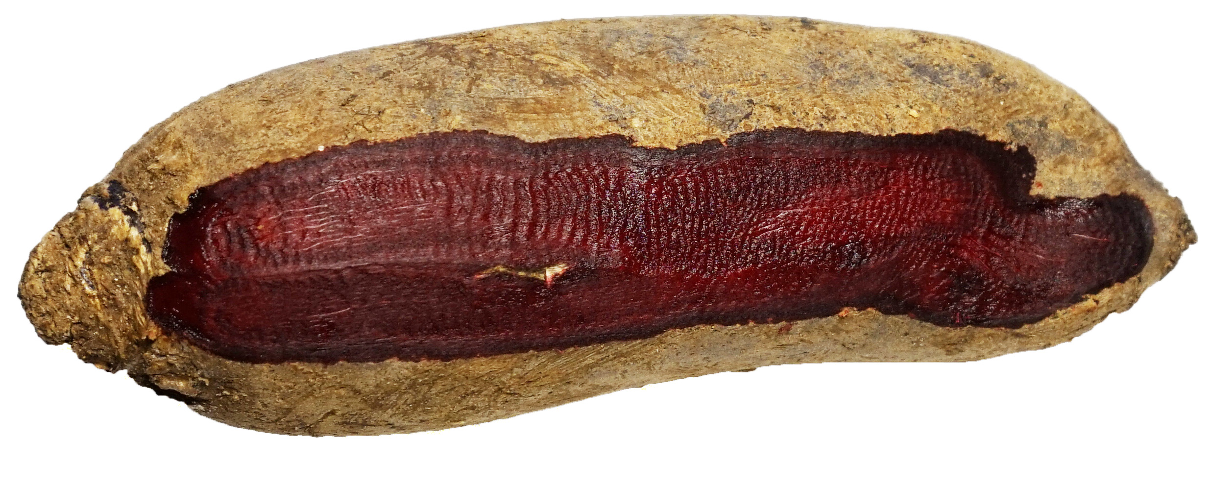 A beetroot, partially peeled.